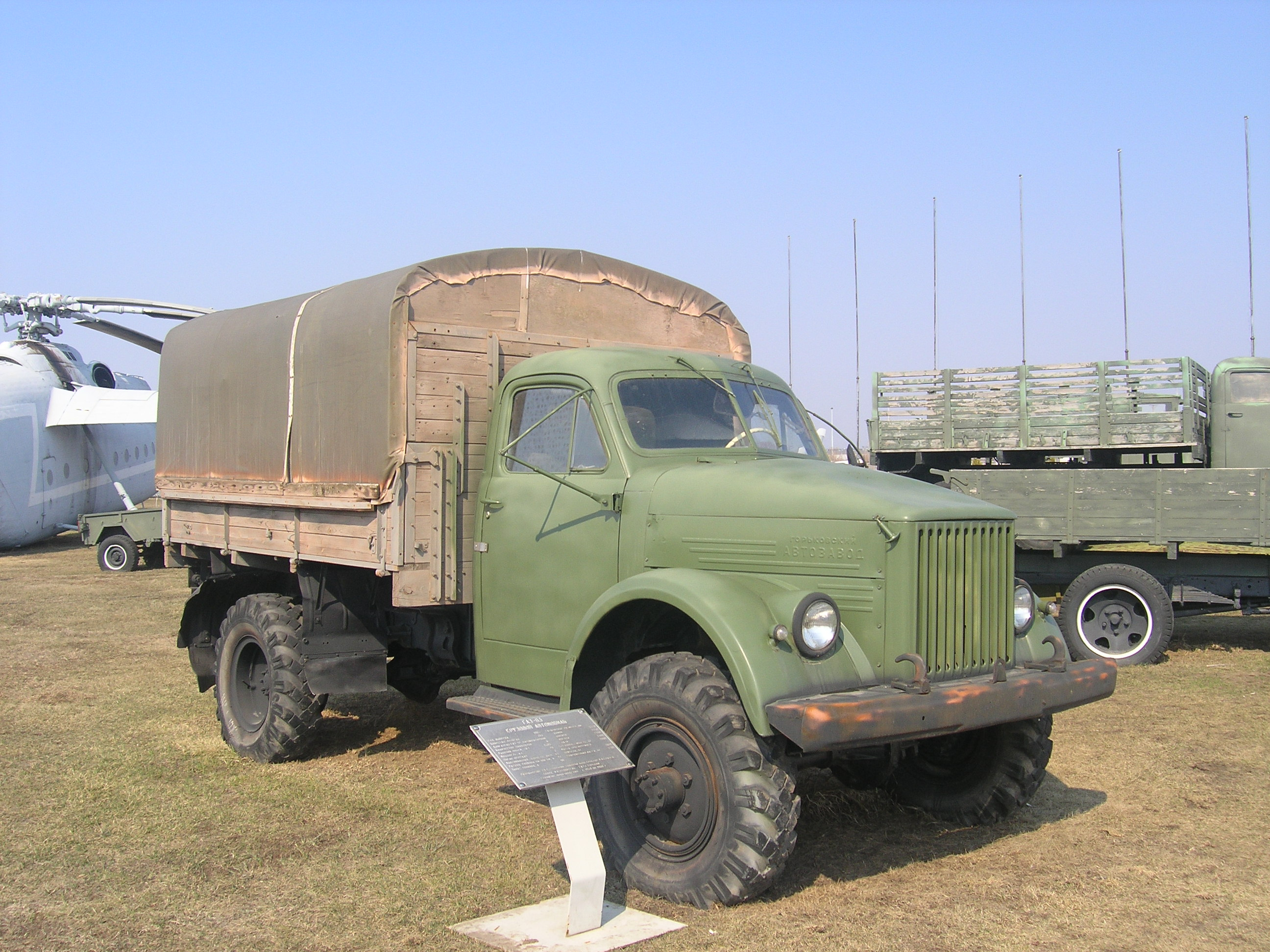 GAZ-63, technical museum, Togliatti, Russia